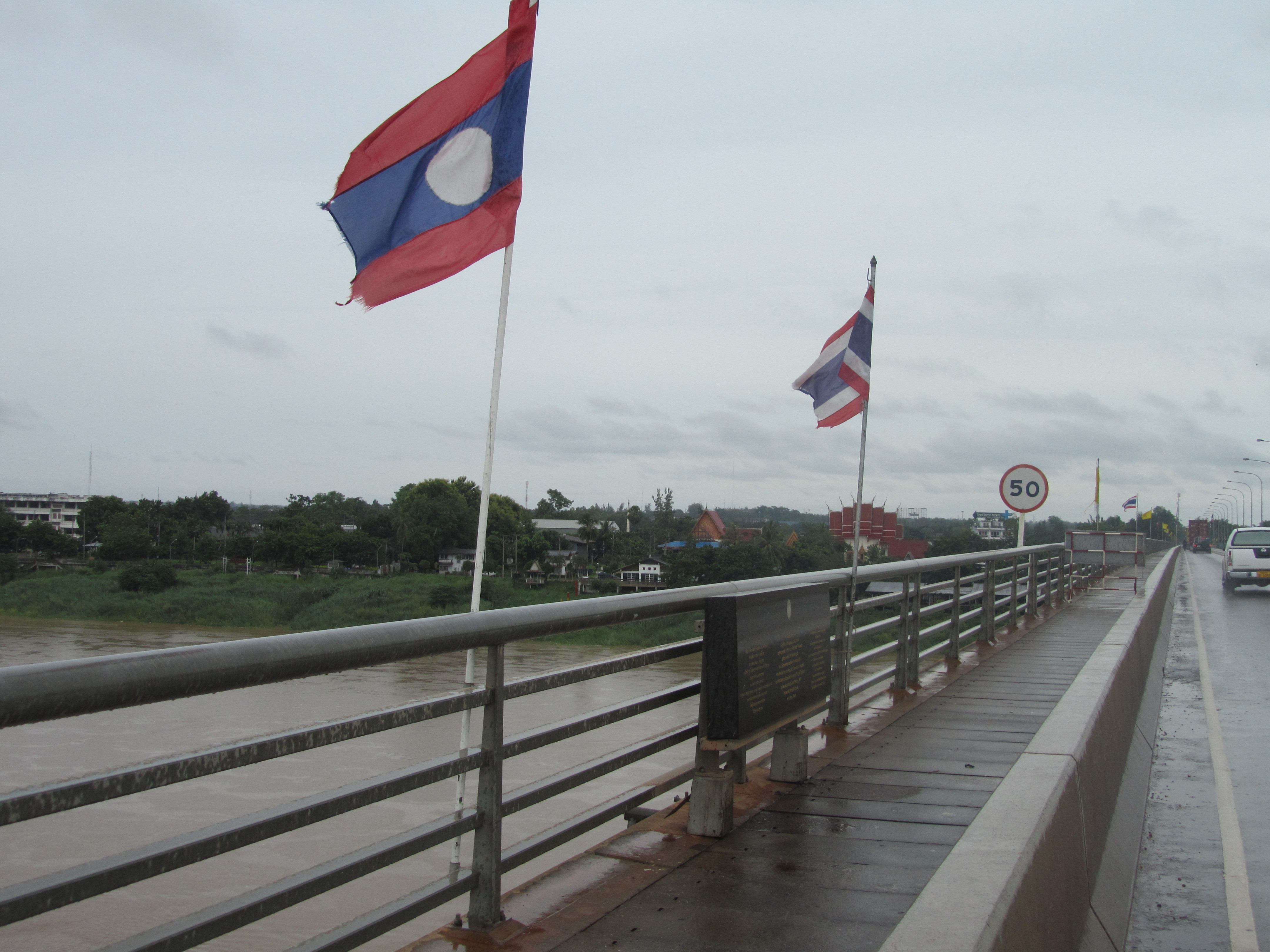 Friendship Bridge